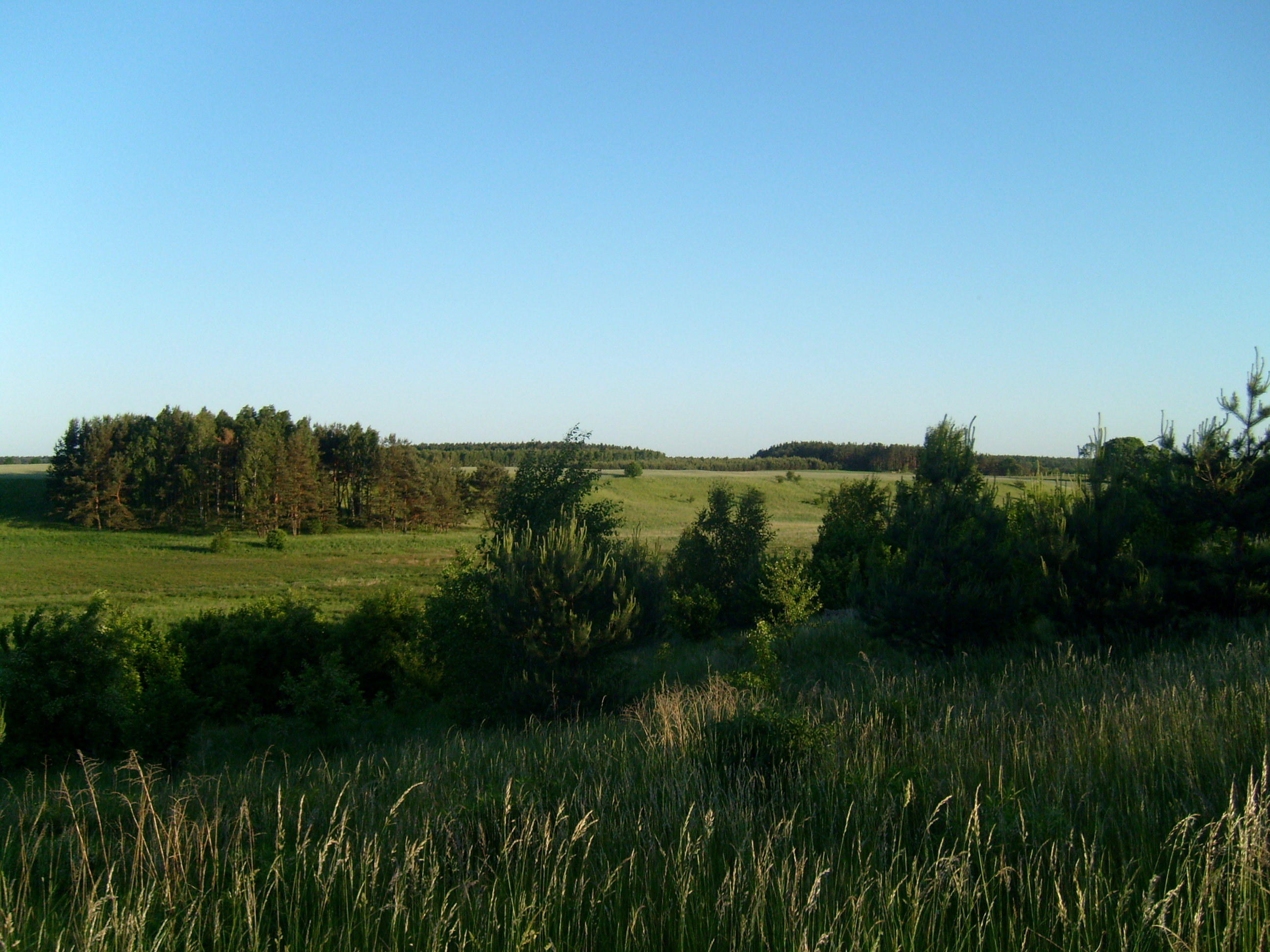 Osiniec near Trzcianka.